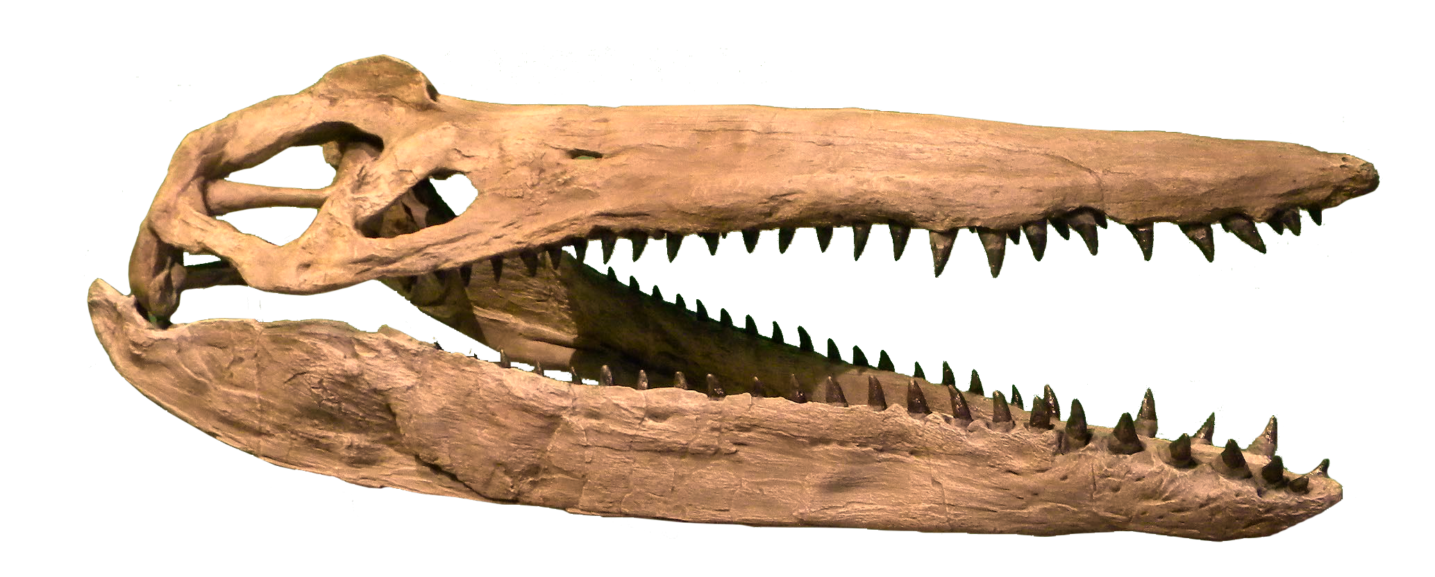 Megacephalosaurus eulerti reconstructed skull in the Rocky Mountain Dinosaur Resource Center, Woodland Park, Colorado.